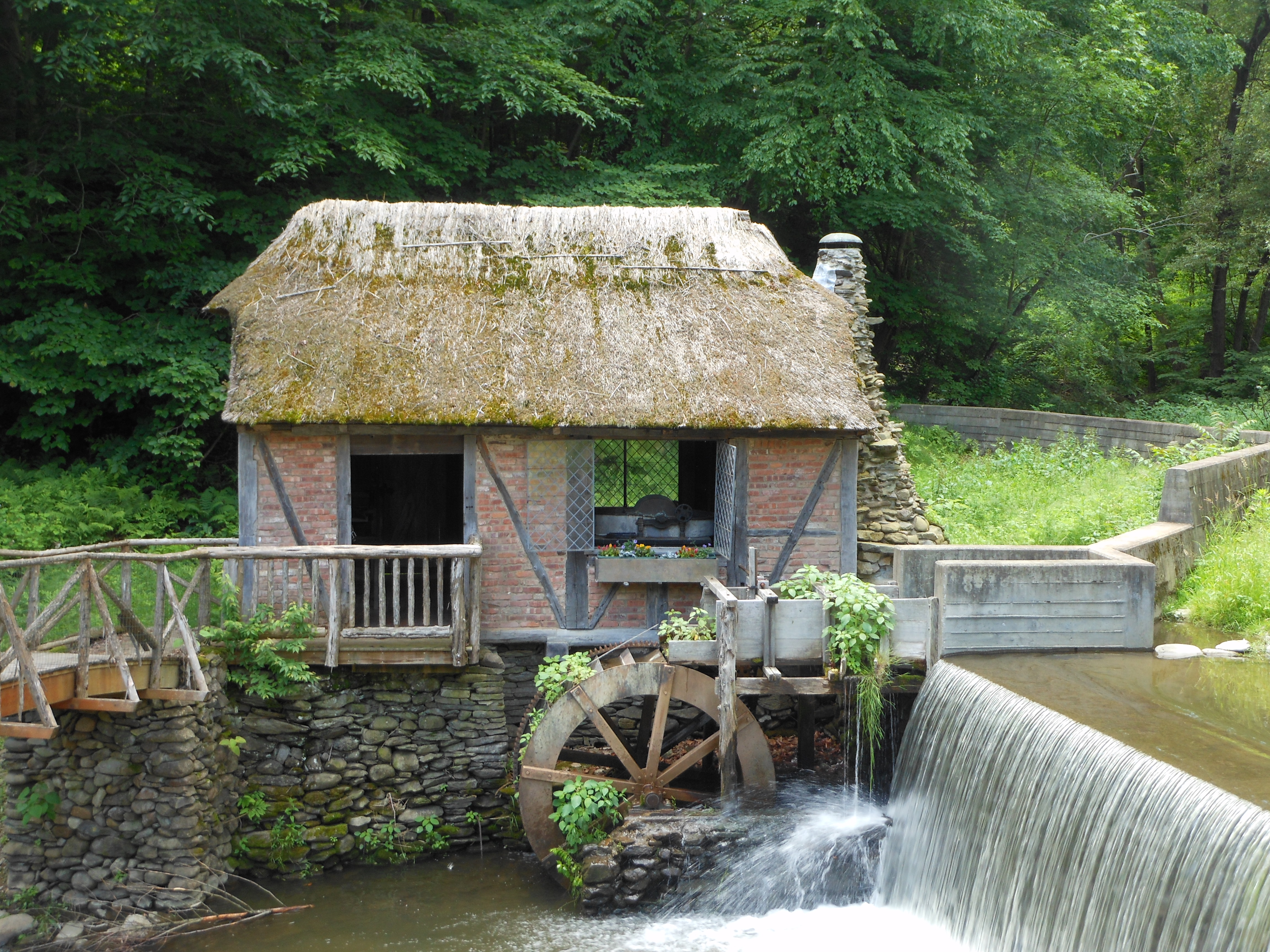 Historic Gomez Mill House in Marlboro, New York